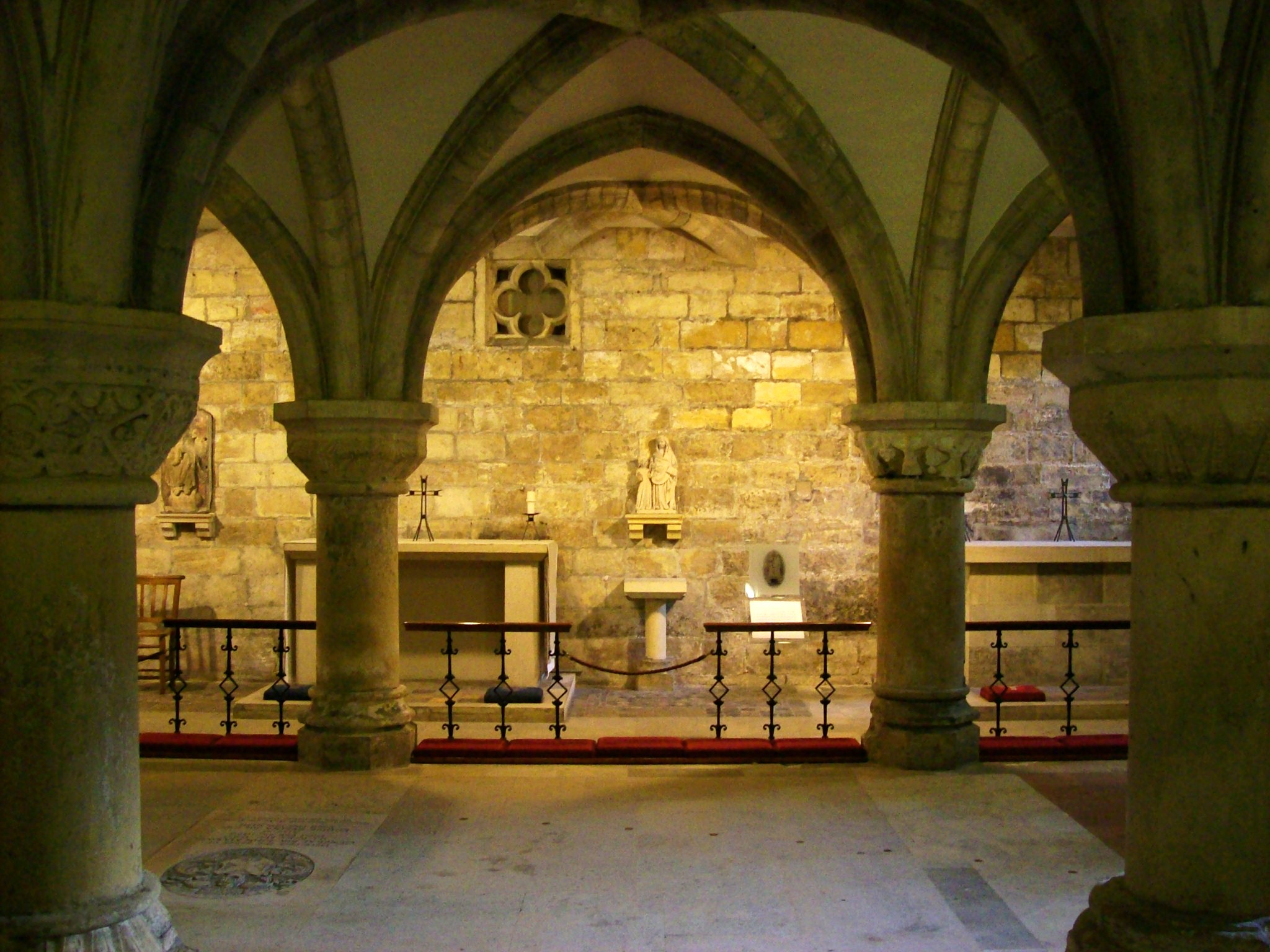 The Crypt, York Minster